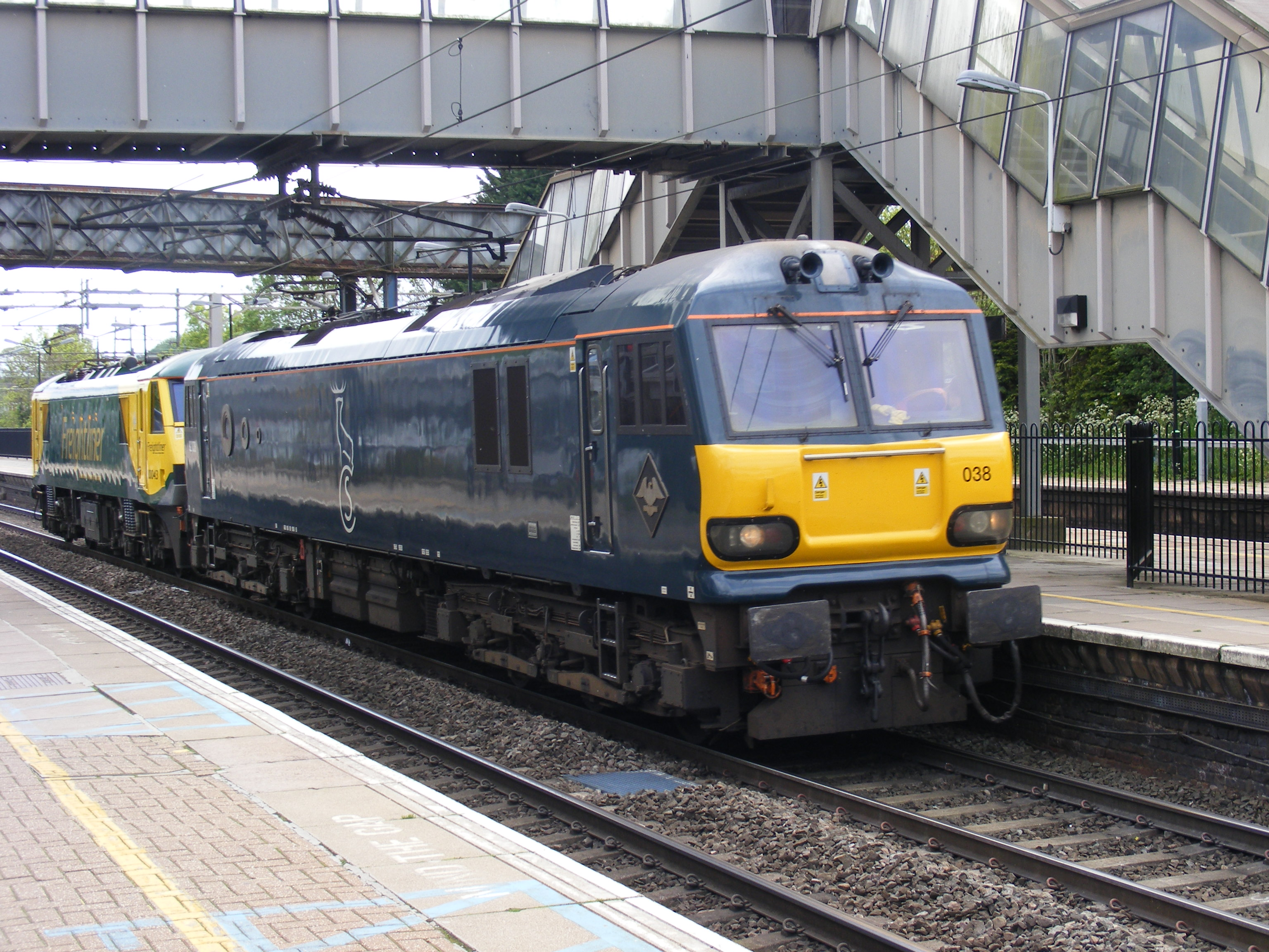 Gbrf and Freighligher locos, Leighton Buzzard 90043 and 92038